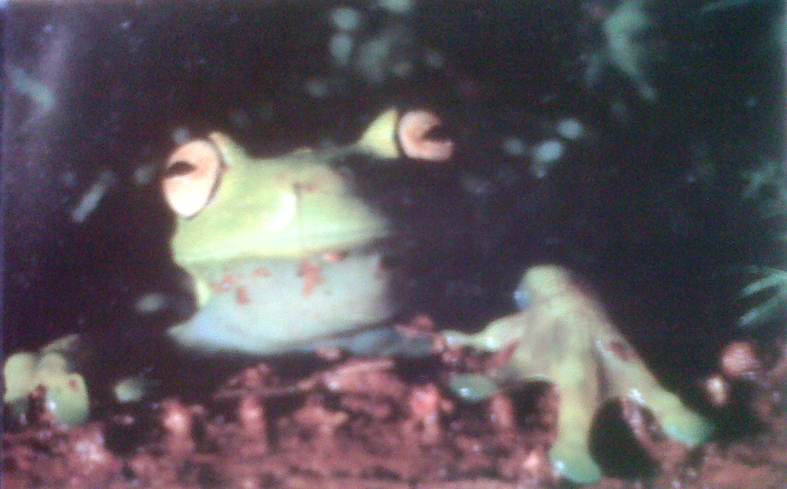 Rana especie habitante del Parque Nacional Natural Alto Fragua Indi-Wasi